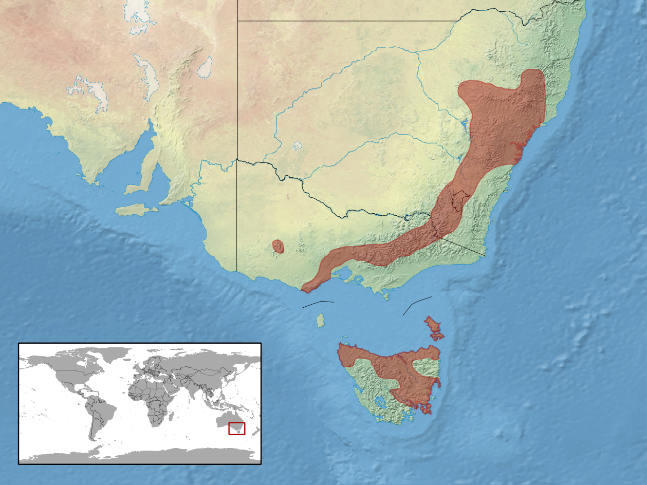 geographic distribution of Rankinia diemensis (Native: Australia (New South Wales, Tasmania, Victoria))